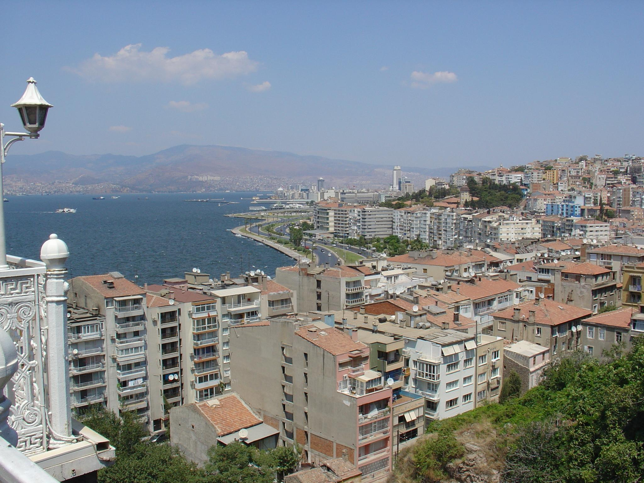 View of İzmir (Izmir, Smyrna), Turkey, as seen by Asansör.